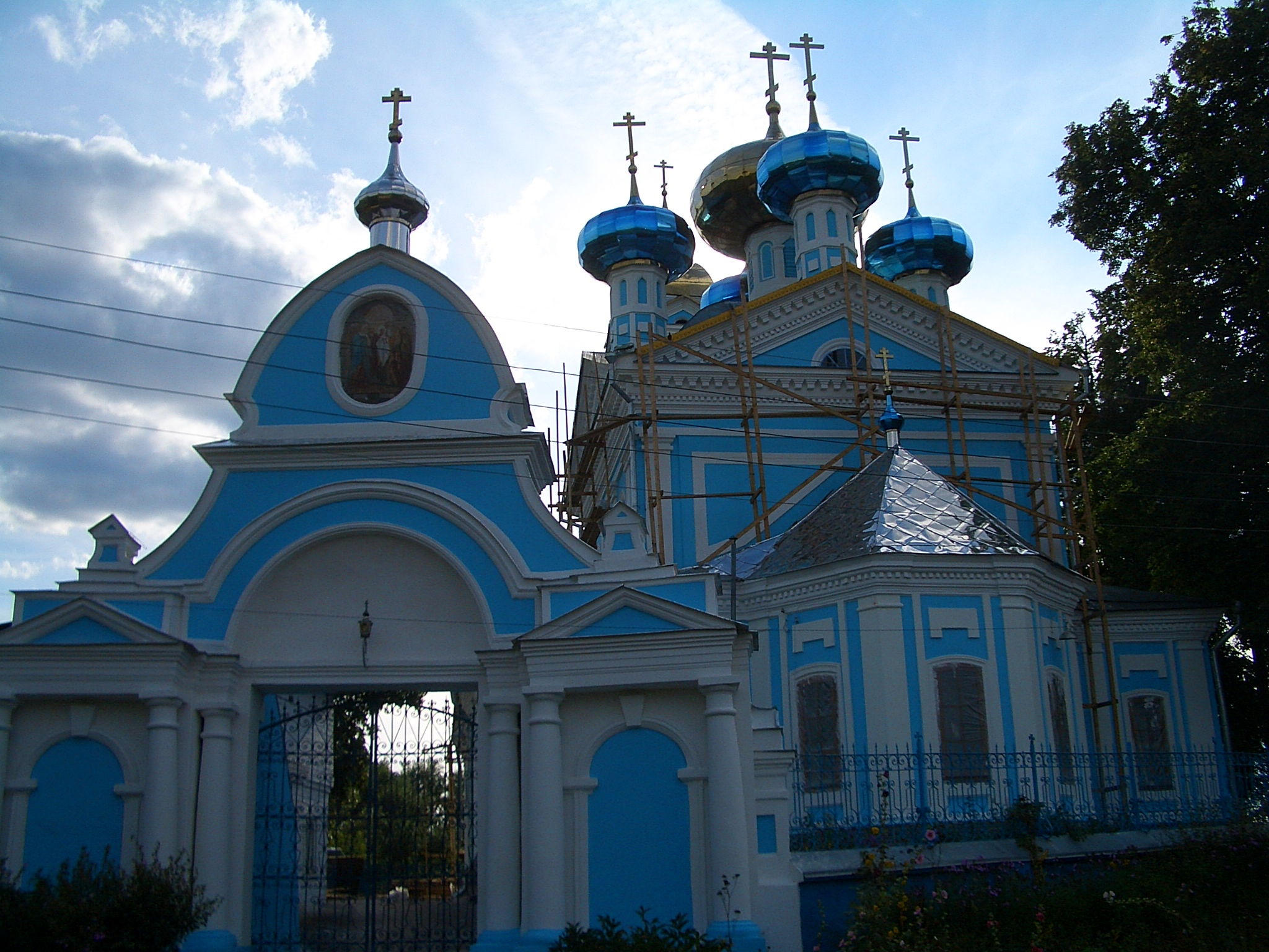 Church of Presentation of Jesus at the temple. City of Balakhna, 1807